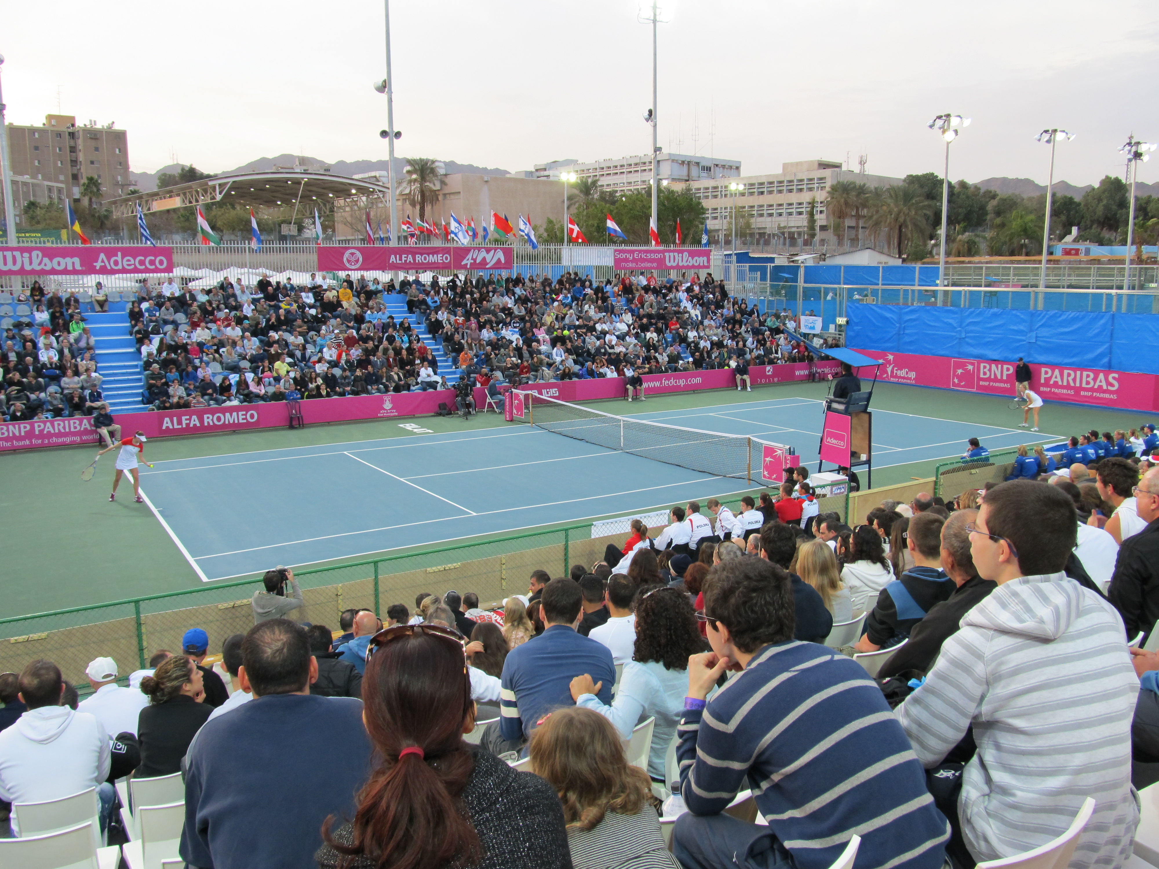 The center court of the venue of the Fed Cup Group I 2011 Europe/ Africa tournament in Eilat, Israel. The picture was taken during the match between Magda Linette of Poland and Julia Glushko of Israel